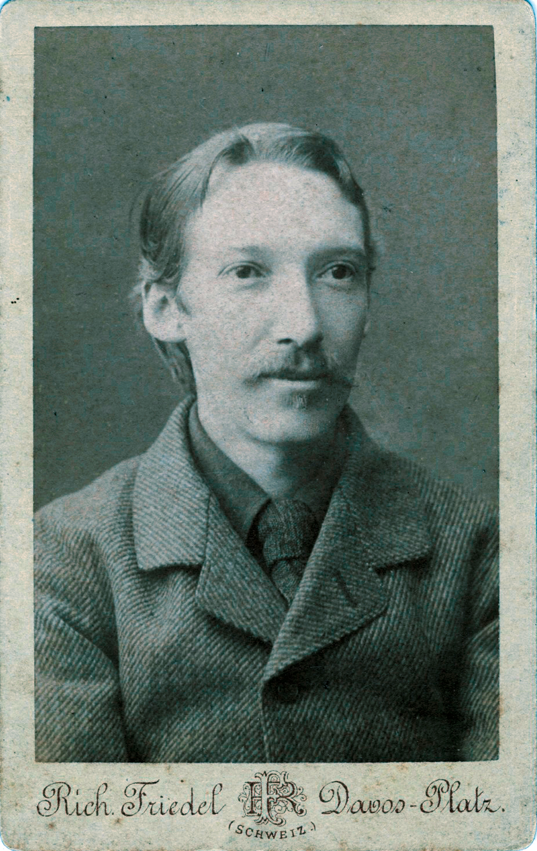 Photograph of Robert Louis Stevenson in Davos